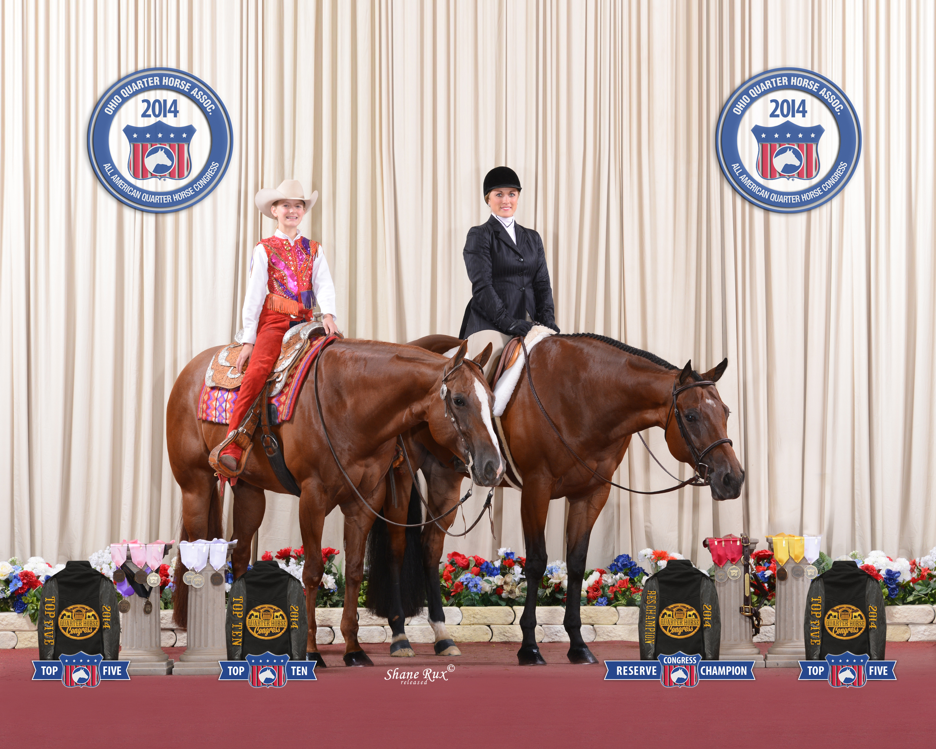 Mother and daughter competitors winning All American Quarter Horse Congress Top Ten, Top Five and Reserve Champion